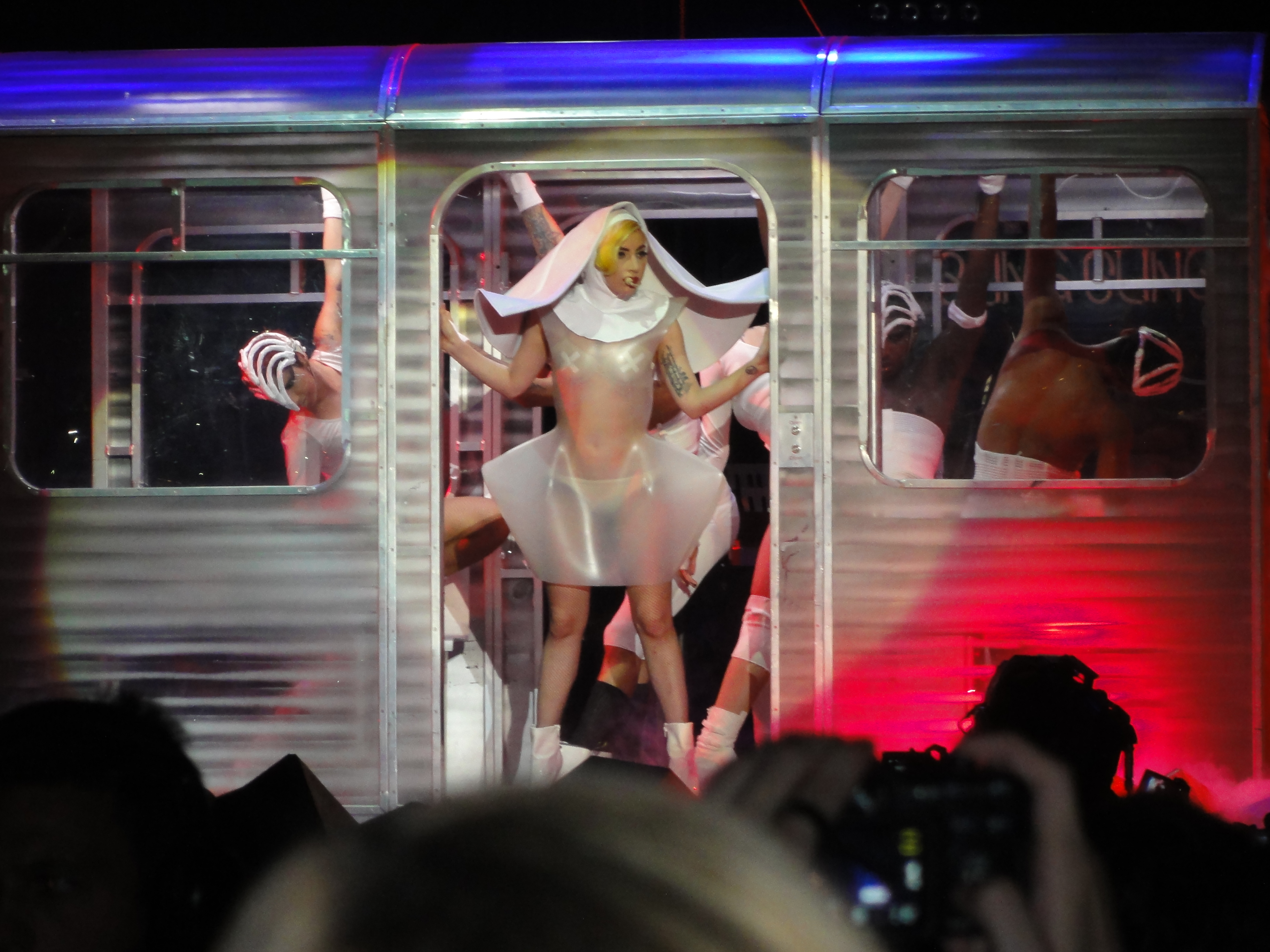 Lady Gaga - The Monster Ball Tour - Burswood Dome Perth